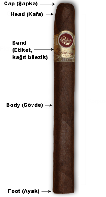 Changed the Polish captions of "the parts of a cigar" photo to Turkish and English languages, thus created a derivation of this GNU Free Documentation Licensed picture.